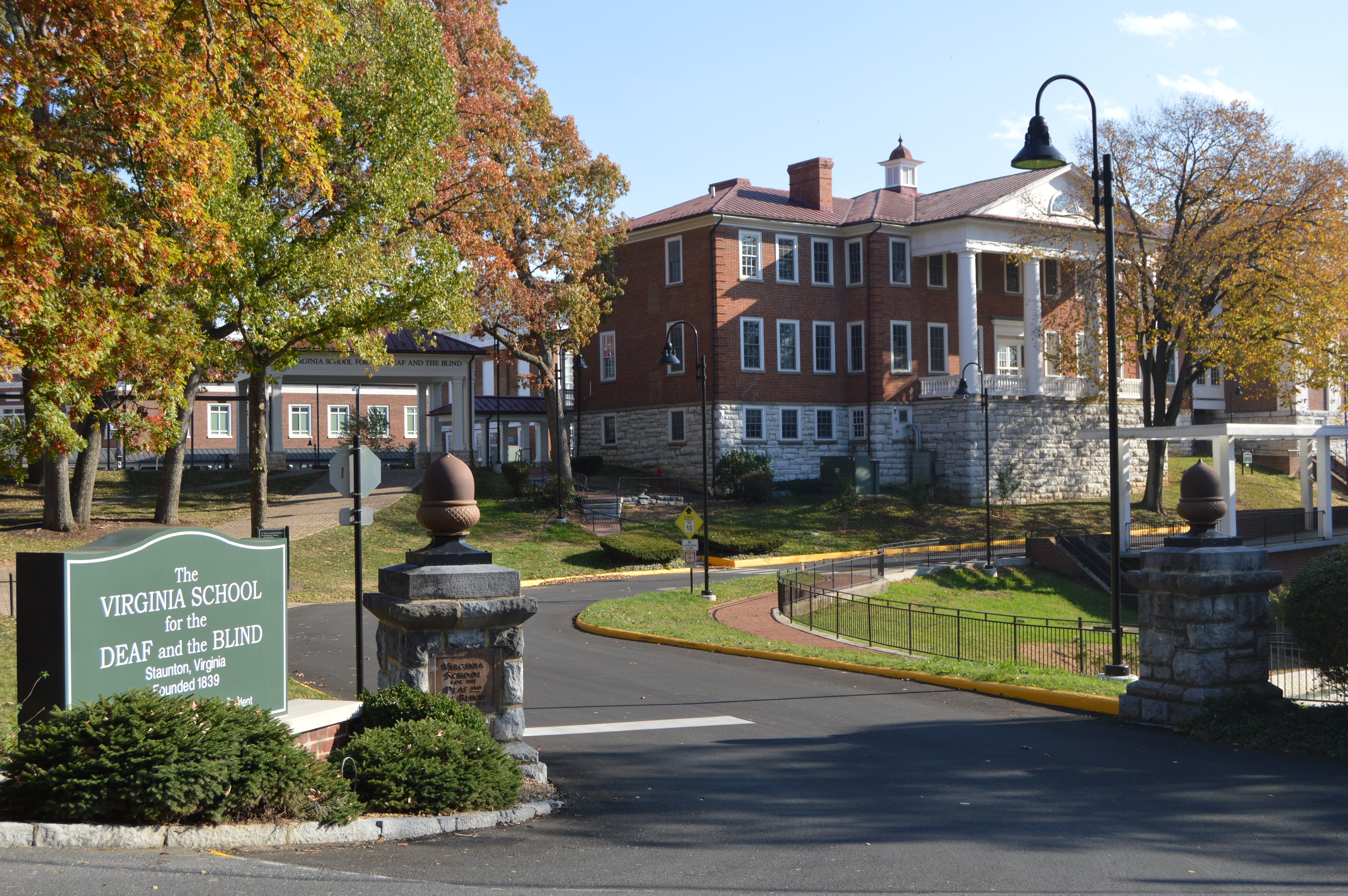 Buildings at the entrance to the Virginia School for the Deaf and the Blind, located on the eastern side of Beverley Street northeast of Coalter Street in Staunton, Virginia, United States. The school complex is listed on the National Register of Historic Places.